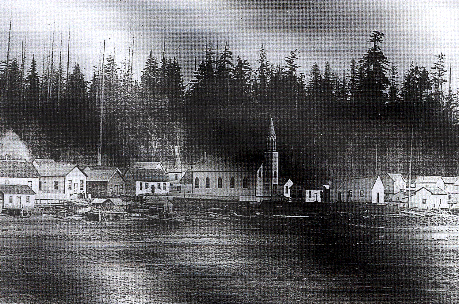 The Mission Indian Reserve, later more commonly known as Eslha7an, was a centre of religious conversation. Photographed here is the St. Paul's Roman Catholic Church, prior to its 1909 remodelling with the addition of twin spires. The church was designated a National Historic Site of Canada in 1980.